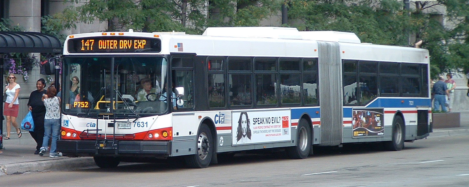 An articulated bus in use by the Chicago Transit Authority (CTA). Photograph taken August 26, 2005 by Kelly Martin